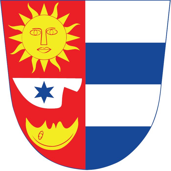 Coat of arm of Bělov